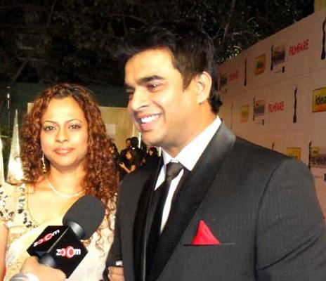 1=Indian actor R. Madhavan at the Bryan Adams concert, 2011